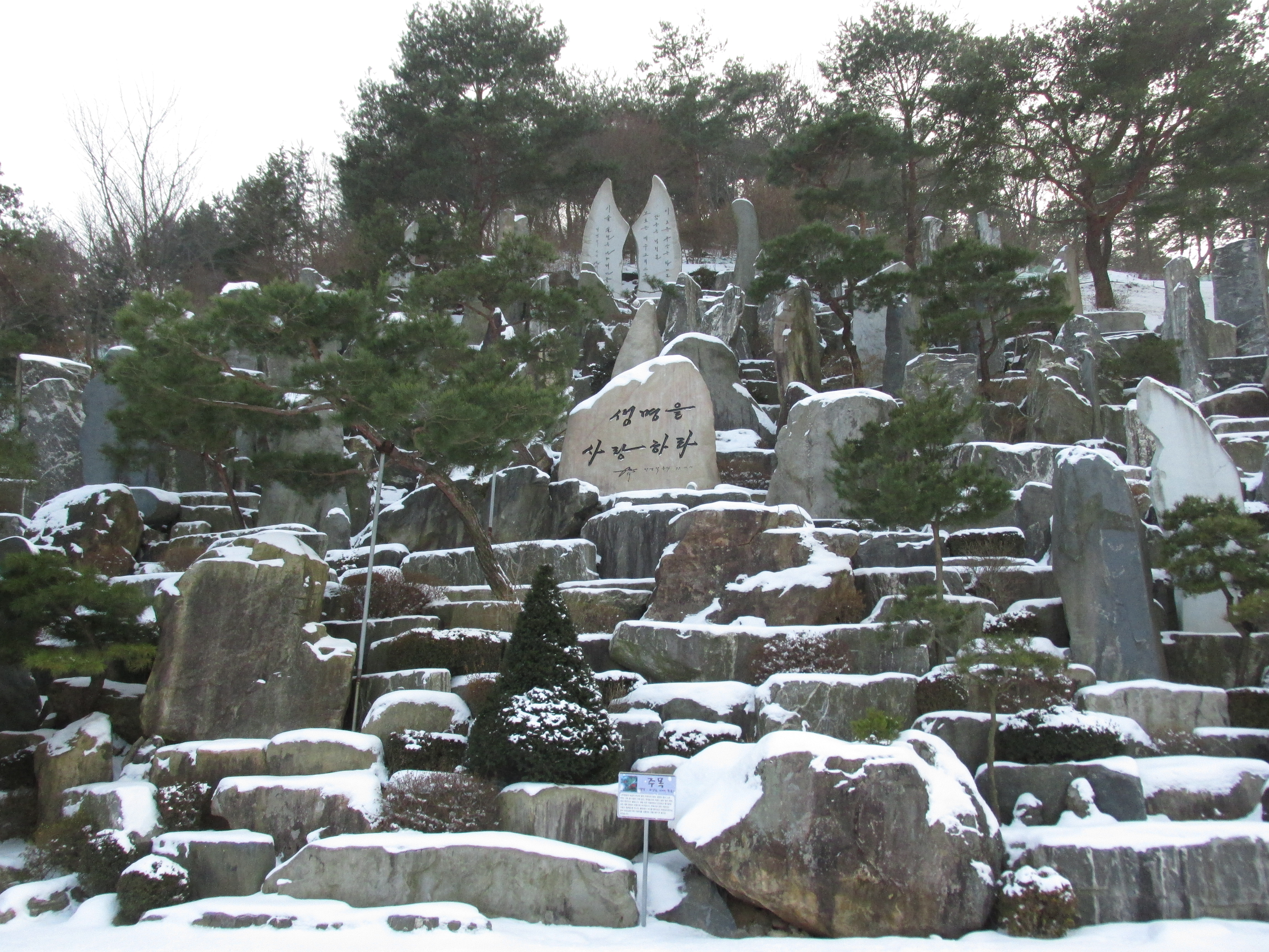 A Wolmyeong Dong Ambition Portion Winter